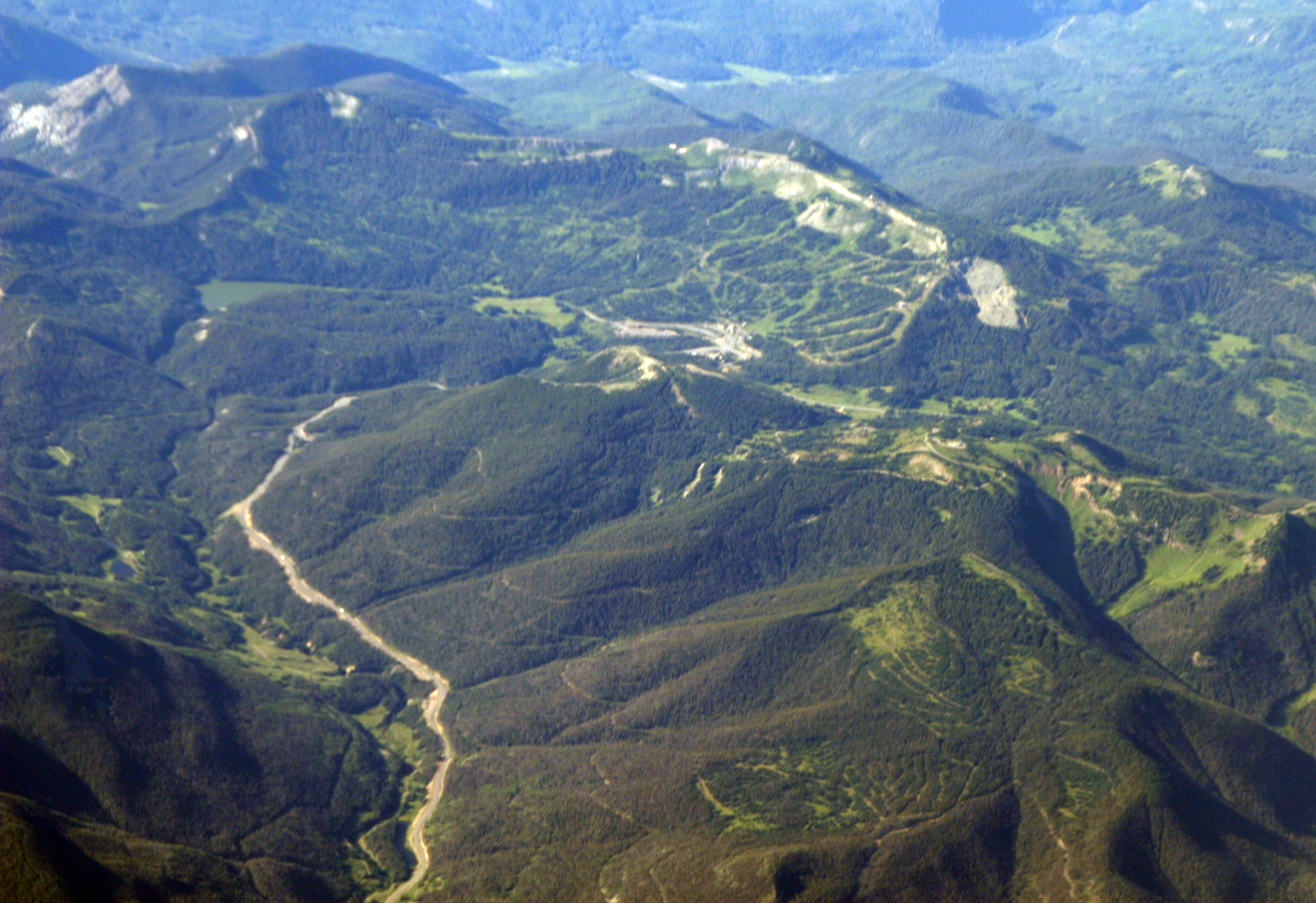 The Wolf Creek Ski area, beside Wolf Creek Pass. (Highway 160.)